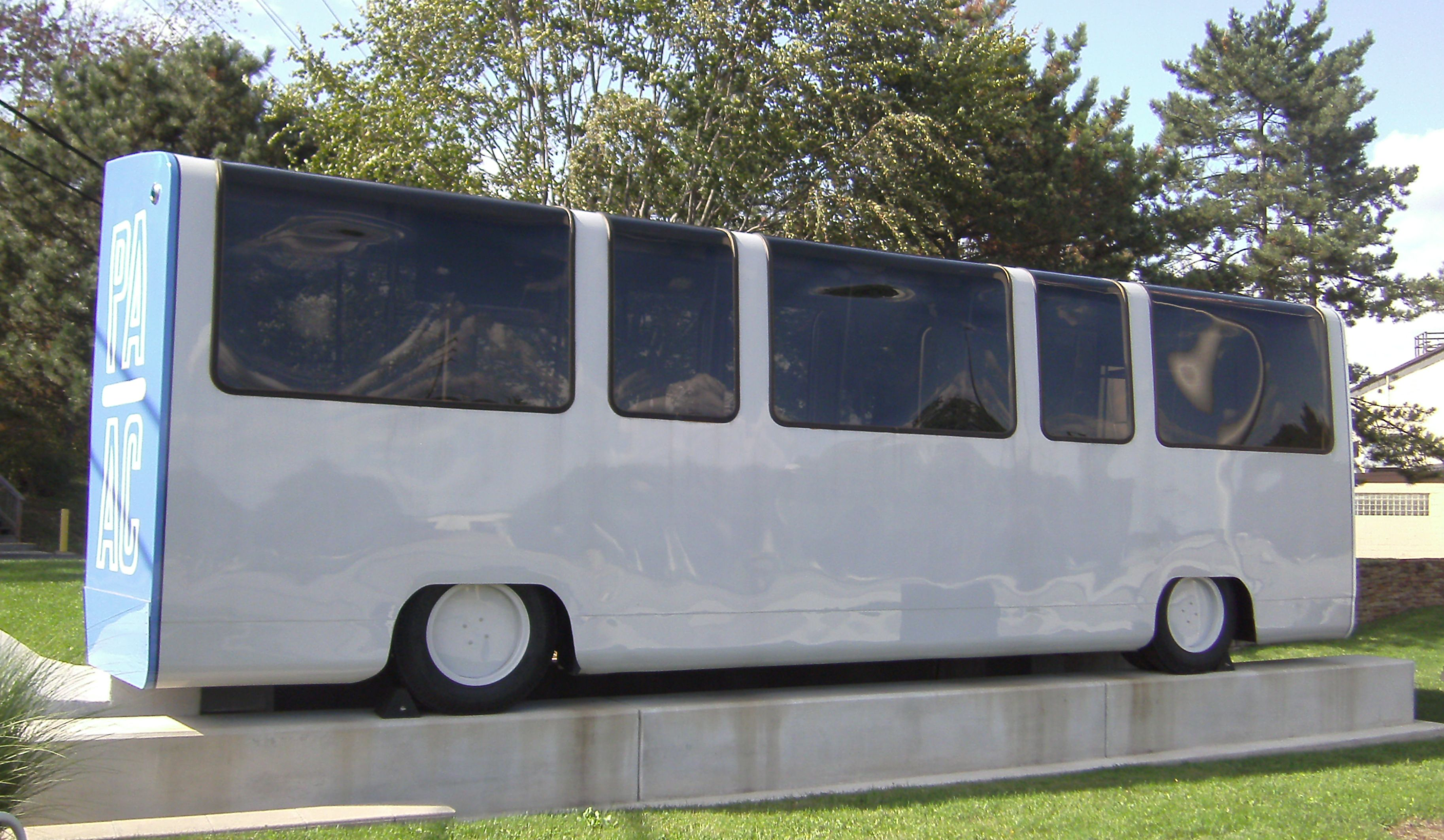 Westinghouse Electric's Skybus prototype. This particular Skybus vehicle - the only surviving example - has been completely refurbished and is displayed at Bombardier Transportation's facility in Pittsburgh, Pennsylvania.